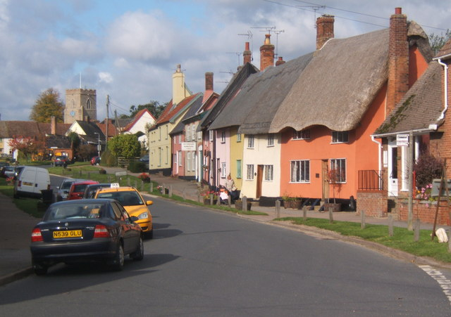 Old Street, Haughley A paticularly attractive Suffolk village street.